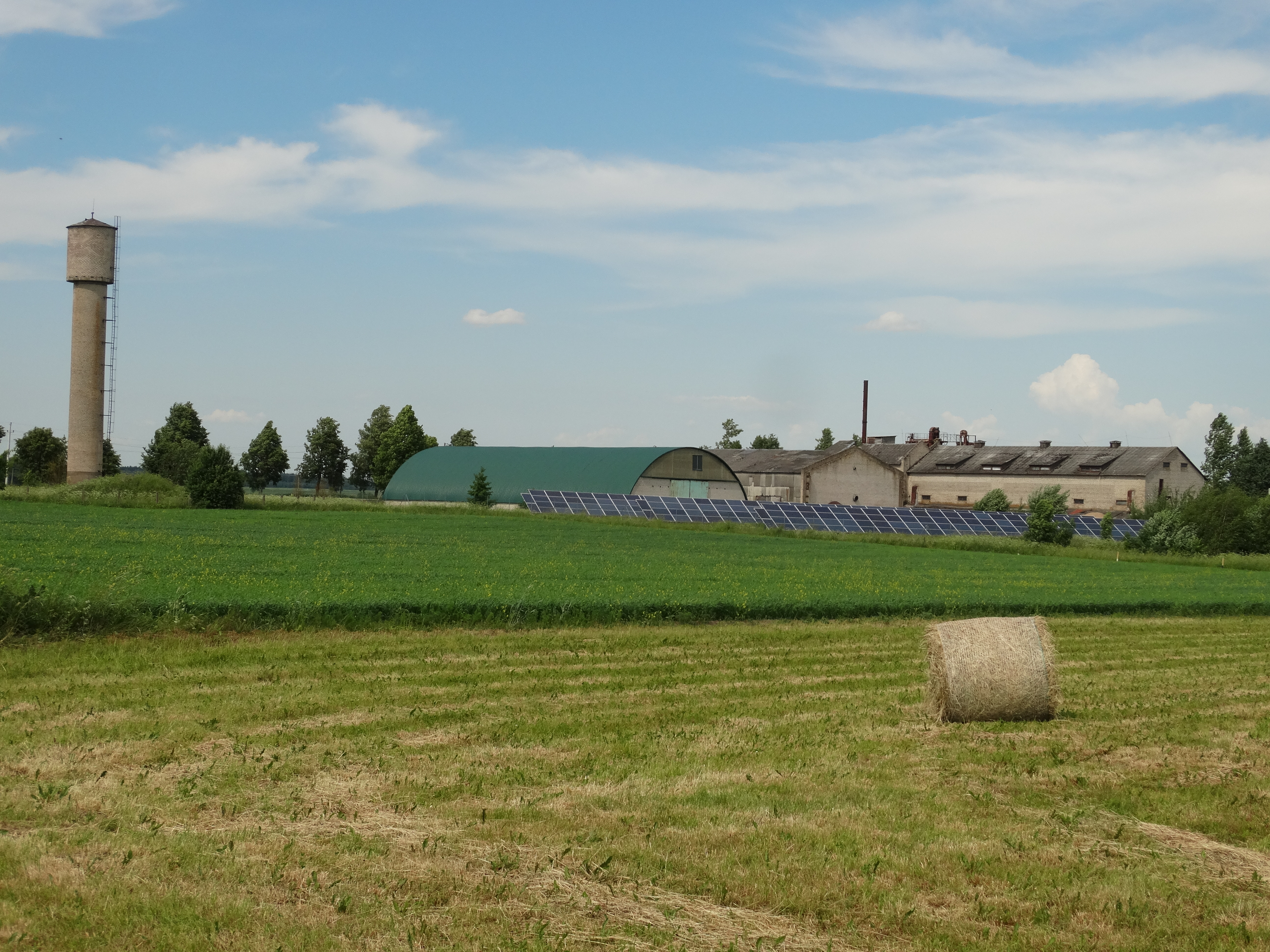 Liktėnai, Raseiniai district, Lithuania